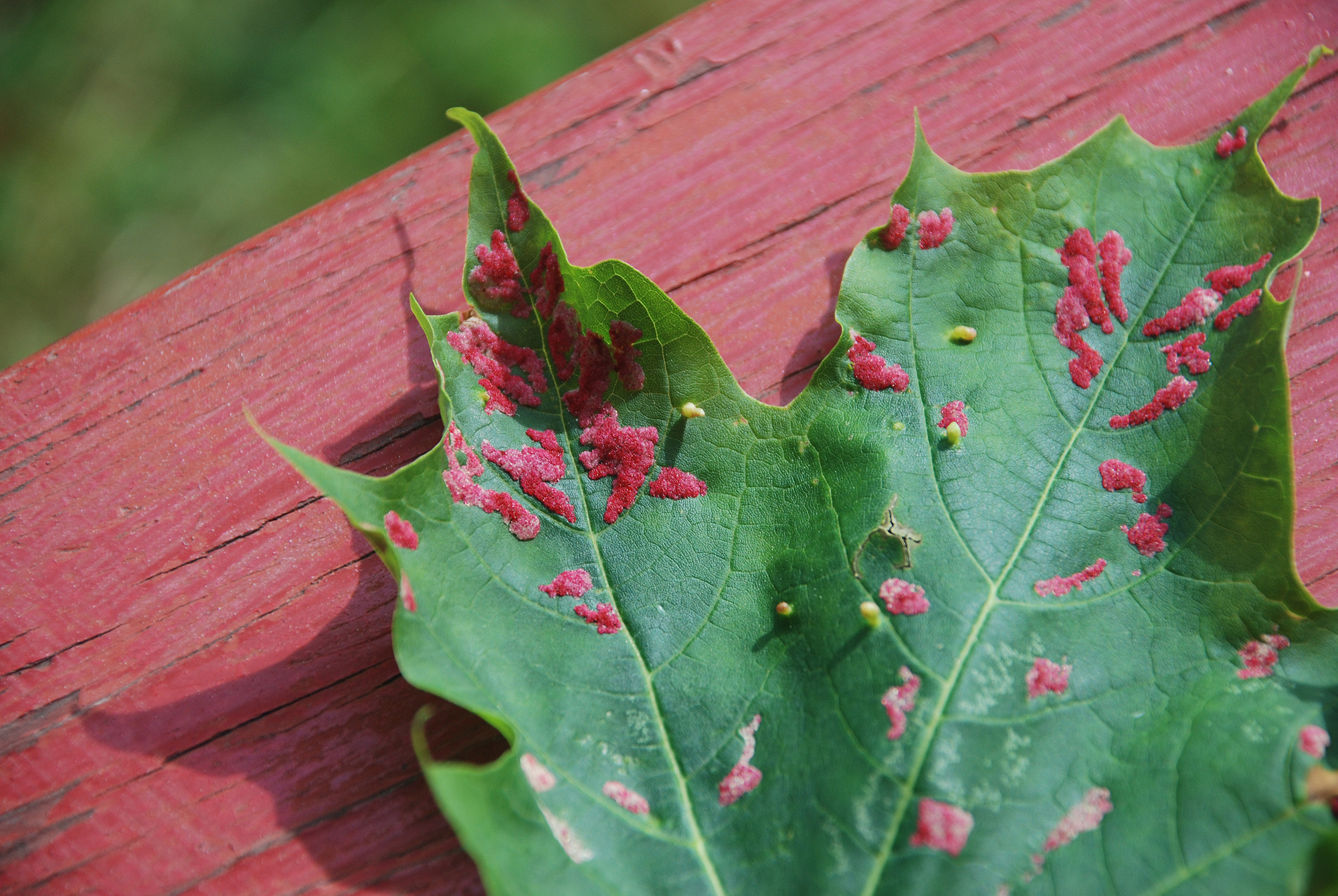 Gall on a Sugar Maple leaf.